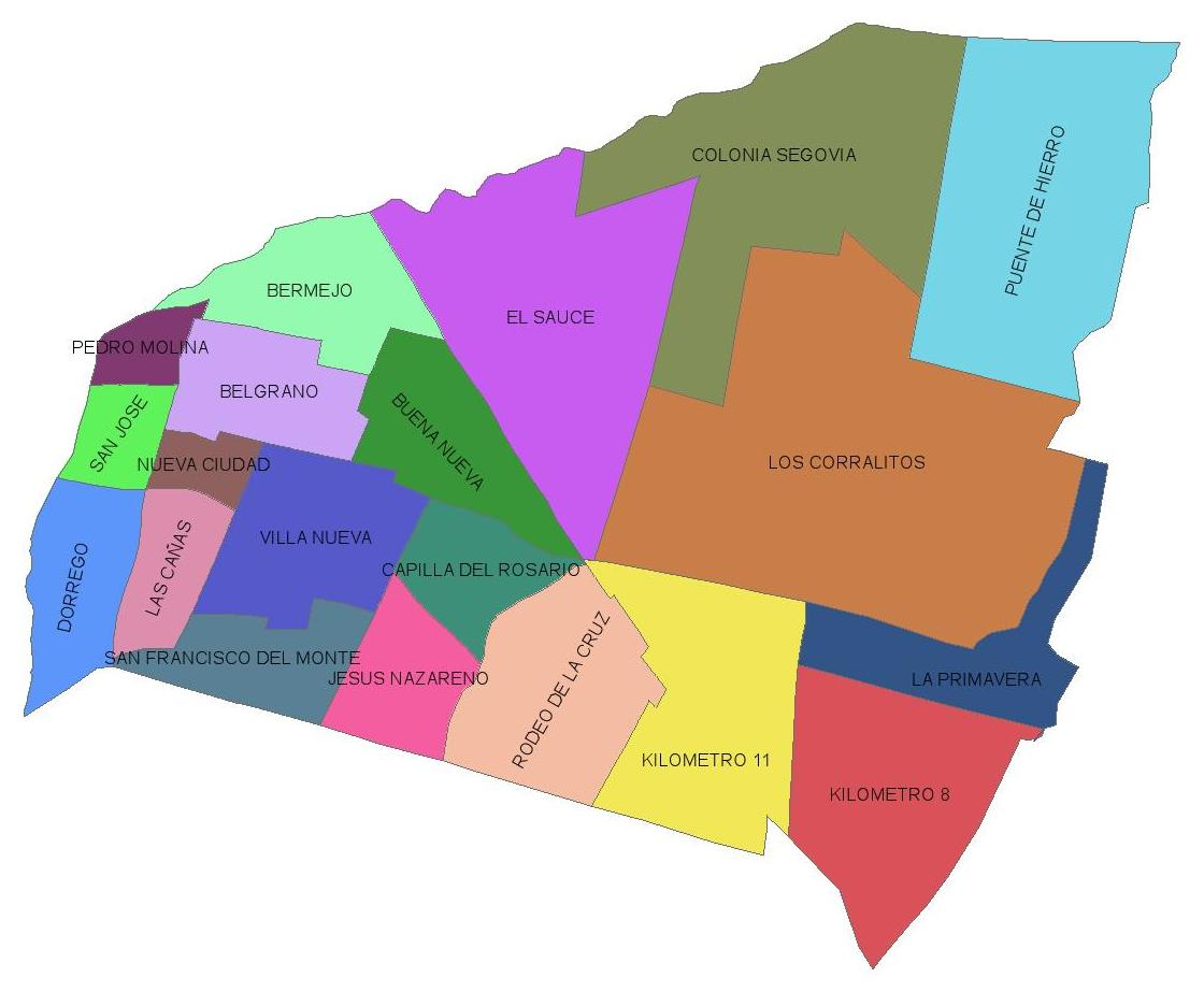 DIVISION POLITICA DE GUAYMALLEN